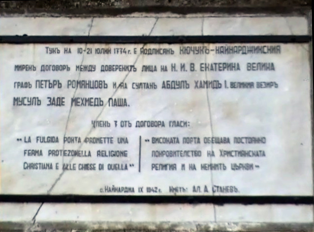 Commemorative plaque where the Treaty of Küçük Kaynarca was signed. The Treaty of Küçük Kaynarca (also spelled Kuchuk Kainarji) was signed on 21 July 1774, at Küçük Kaynarca, Dobruja (today Kaynardzha, Silistra Province, Bulgaria) between the Russian Empire and the Ottoman Empire after the Ottoman Empire was defeated in the Russo-Turkish War of 1768-1774. The text is engraved in Italian and in Bulgarian. Translation: Here at 10–21 July 1774 was signed the Treaty of Küçük Kaynarca between the representative of Catherine the Great, Count Peter Rumyantsev and the representative of Sultan Abdul Hamid I, the Grand Vizier Musul Zade Mehmed Pasha. Clause 7 of this treaty reads as follows: The Sublime Porte promises permanent protection of the Christian religion and its churches.